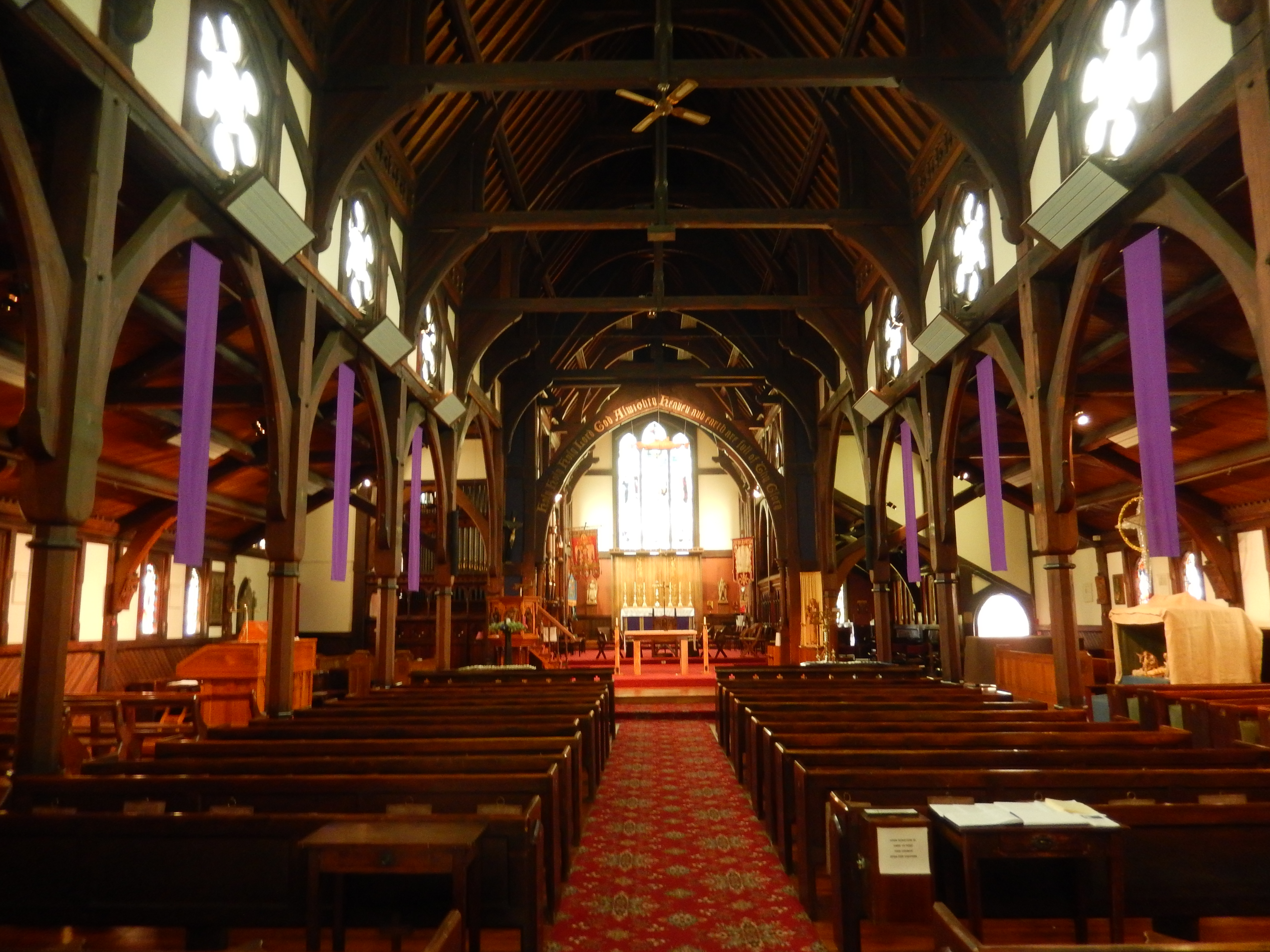 Christchurch St Michael and All Angels Church, interior of church looking toward altar.